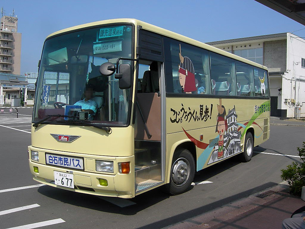 Shiroishi city（Miyagi prefecture）bus "Castle-kun"